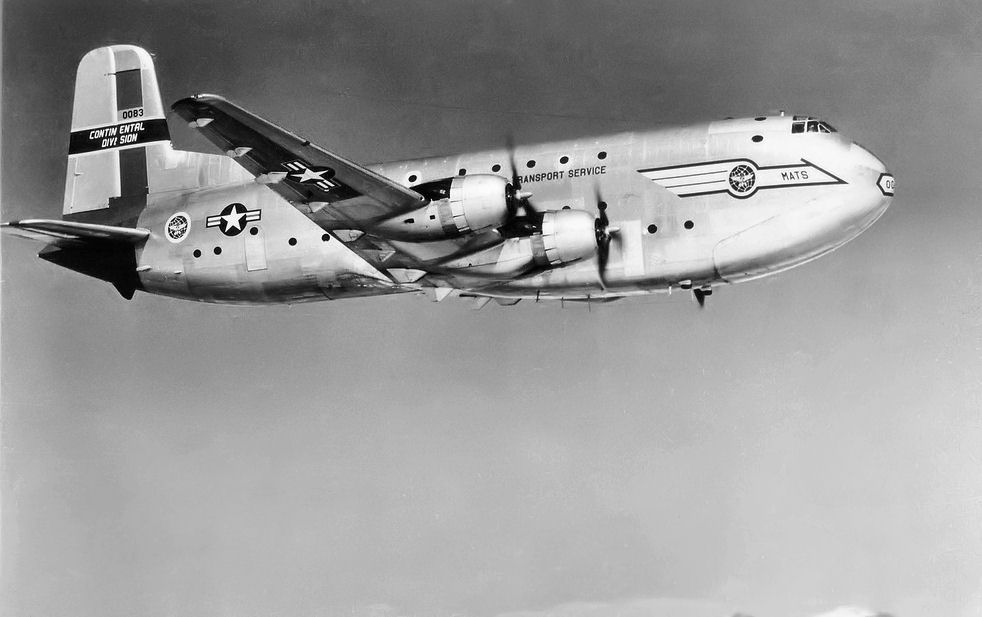 C-124A Globemaster II in flight about 1952